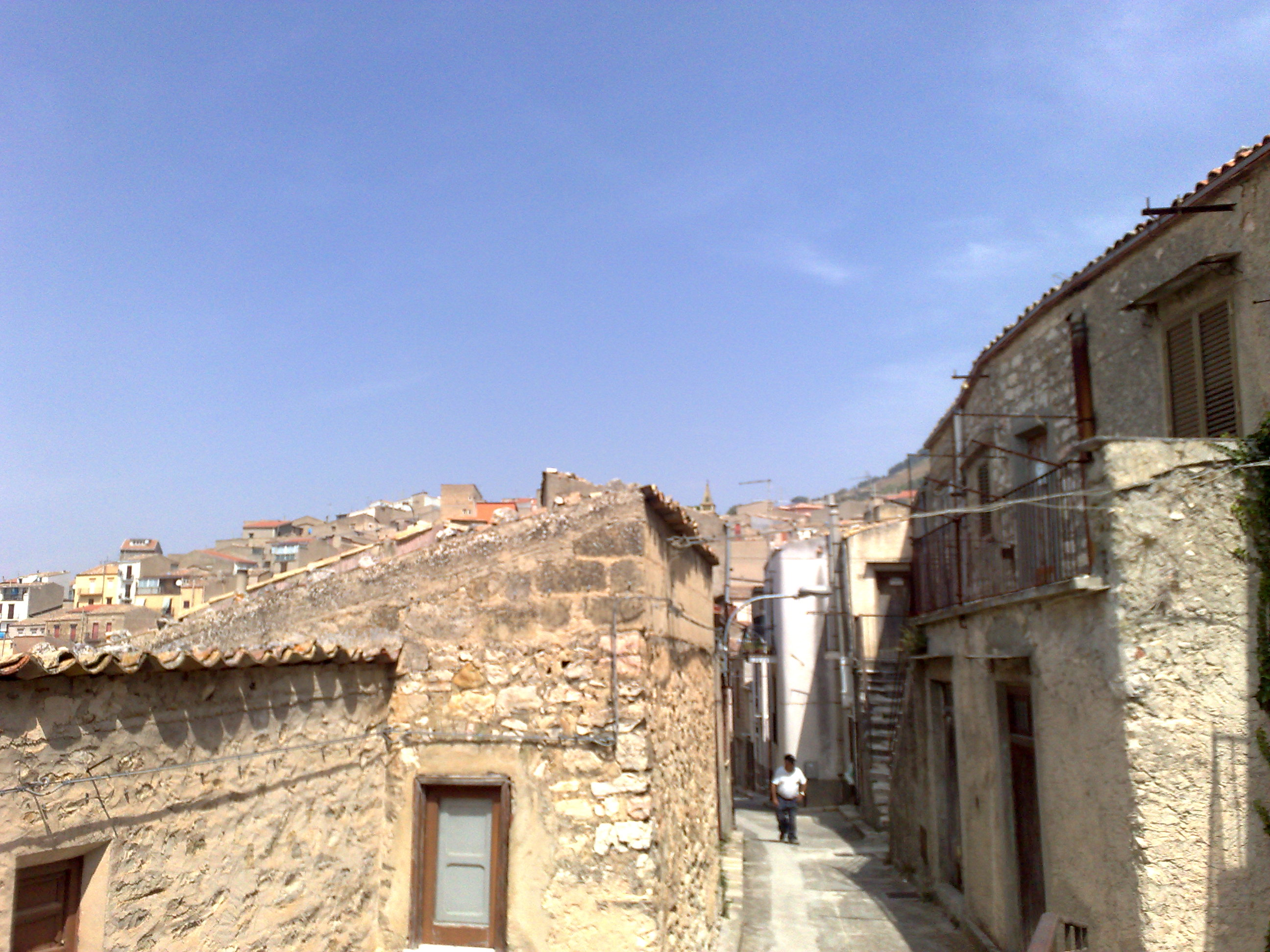 Bisacquino (Palermo) landscape